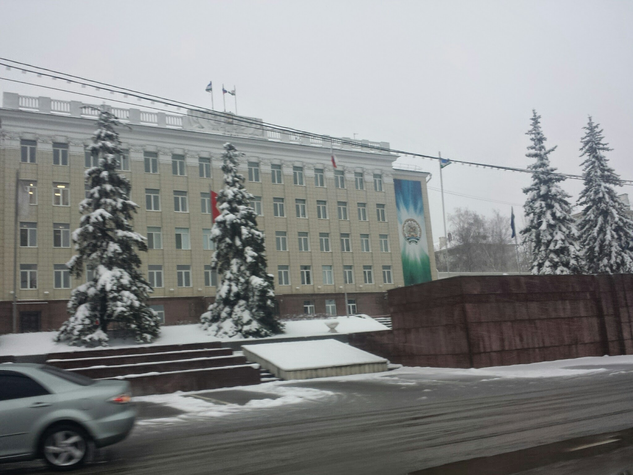 Ufa, Republic of Bashkortostan, Russia